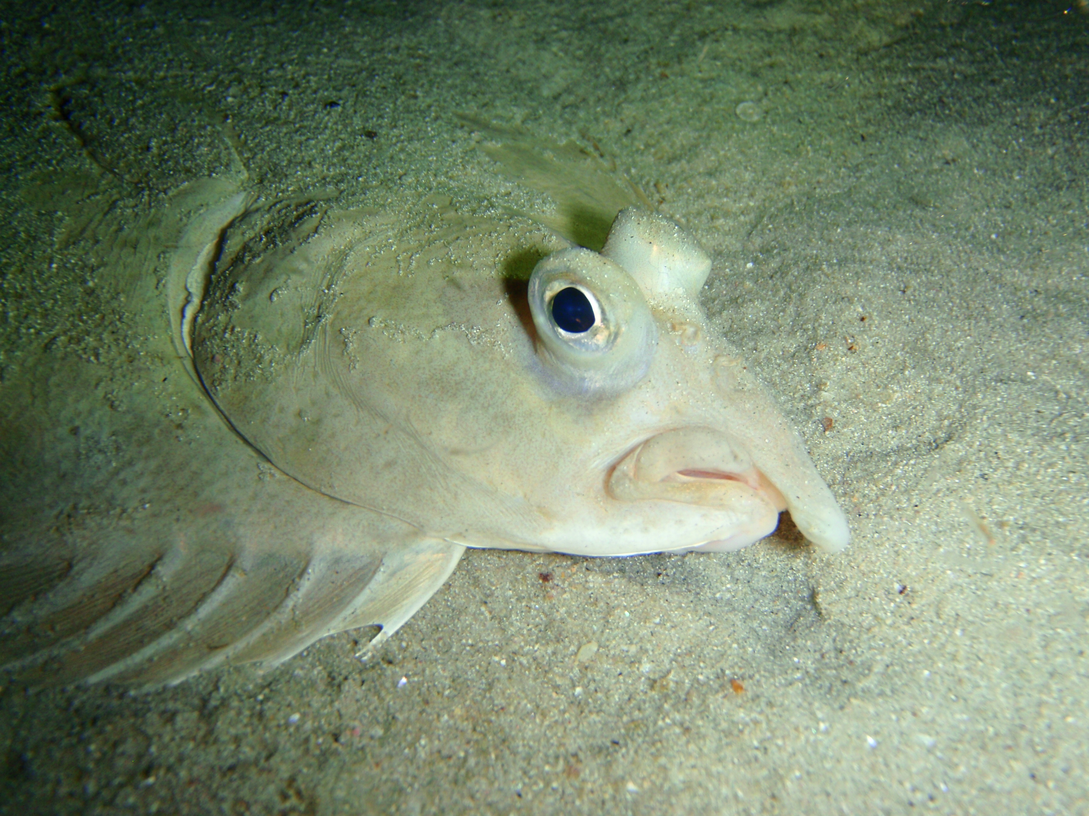 Greenback flounder Rhombosolea tapirina at Bicheno, Tasmania